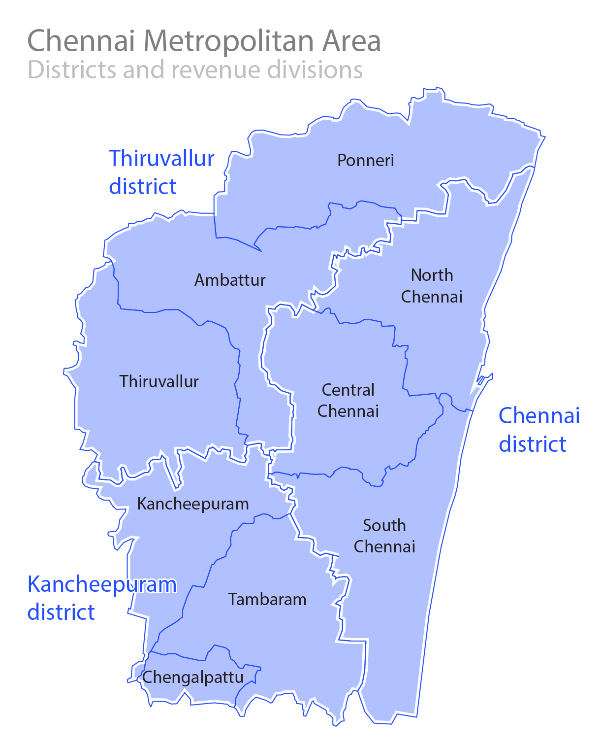 Revenue divisions and districts in the Chennai Metropolitan Area.